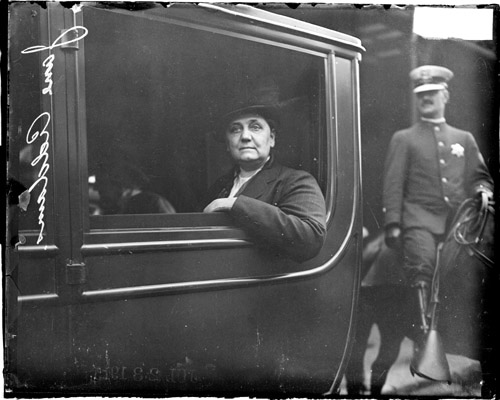 Jane Addams in a car